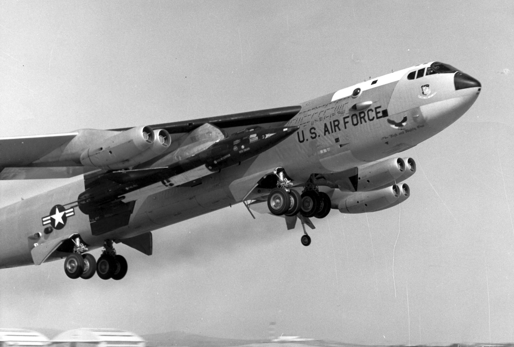 Boeing NB-52A (s/n 52-003) permanent test variant, carrying North American Aviation's legendary X-15, and mission markings. Horizontal X-15 silhouettes indicating glide flights, near-vertical ones recording powered ones.